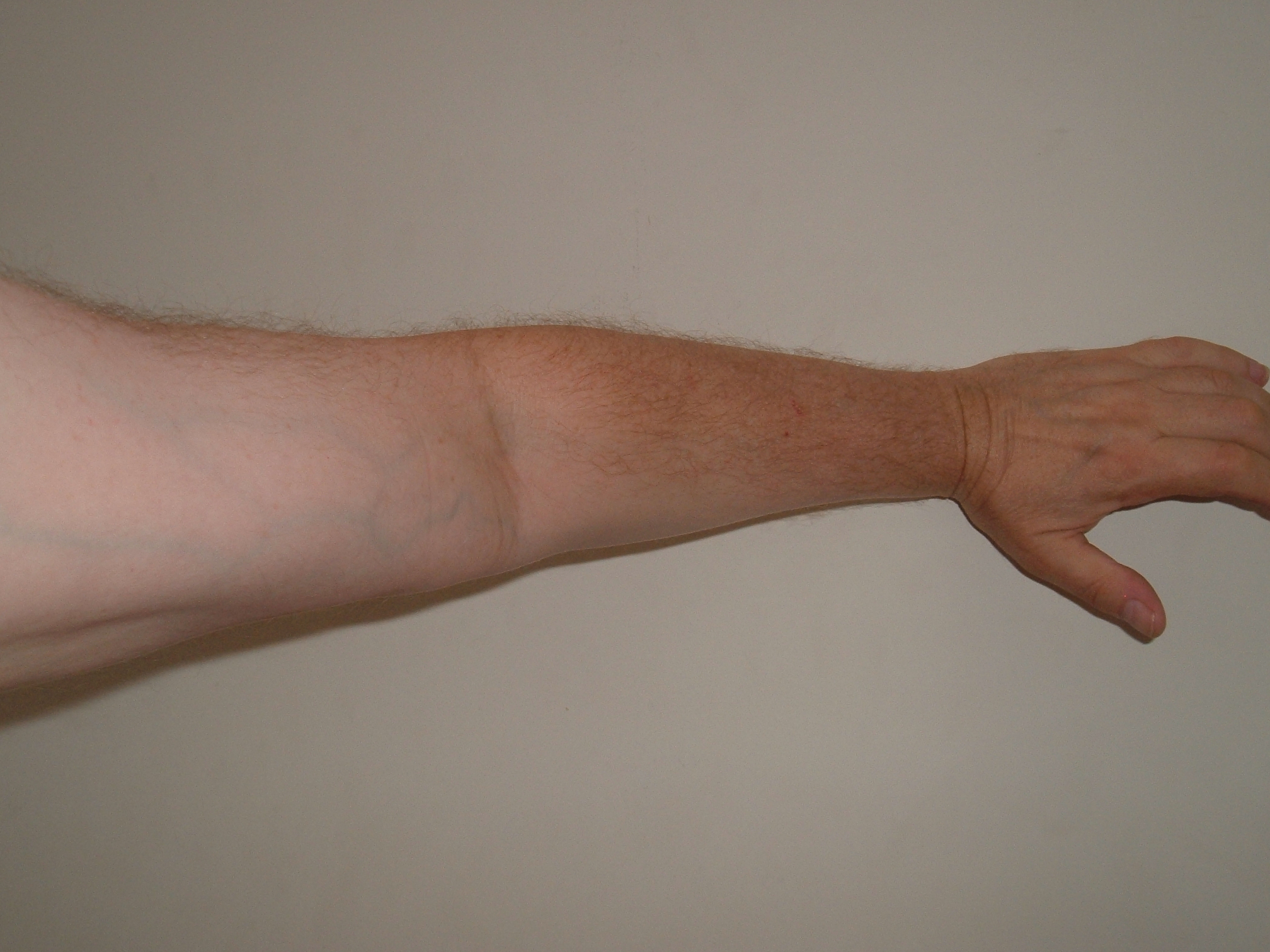 Human arm (author's). One of a series of common objects I photographed in the summer of 2005 to illustrate Basic English picture wordlist. --agr 21:08, 3 August 2005 (UTC)